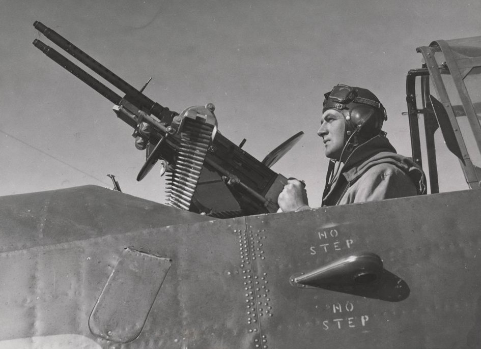 R.A.A.F. Vultee Vengeance Dive Bomber. Observer at controls of Browning machine gun